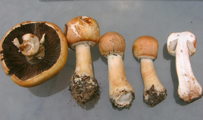 The making of this document was supported by the Community-Budget of Wikimedia Germany. Camera